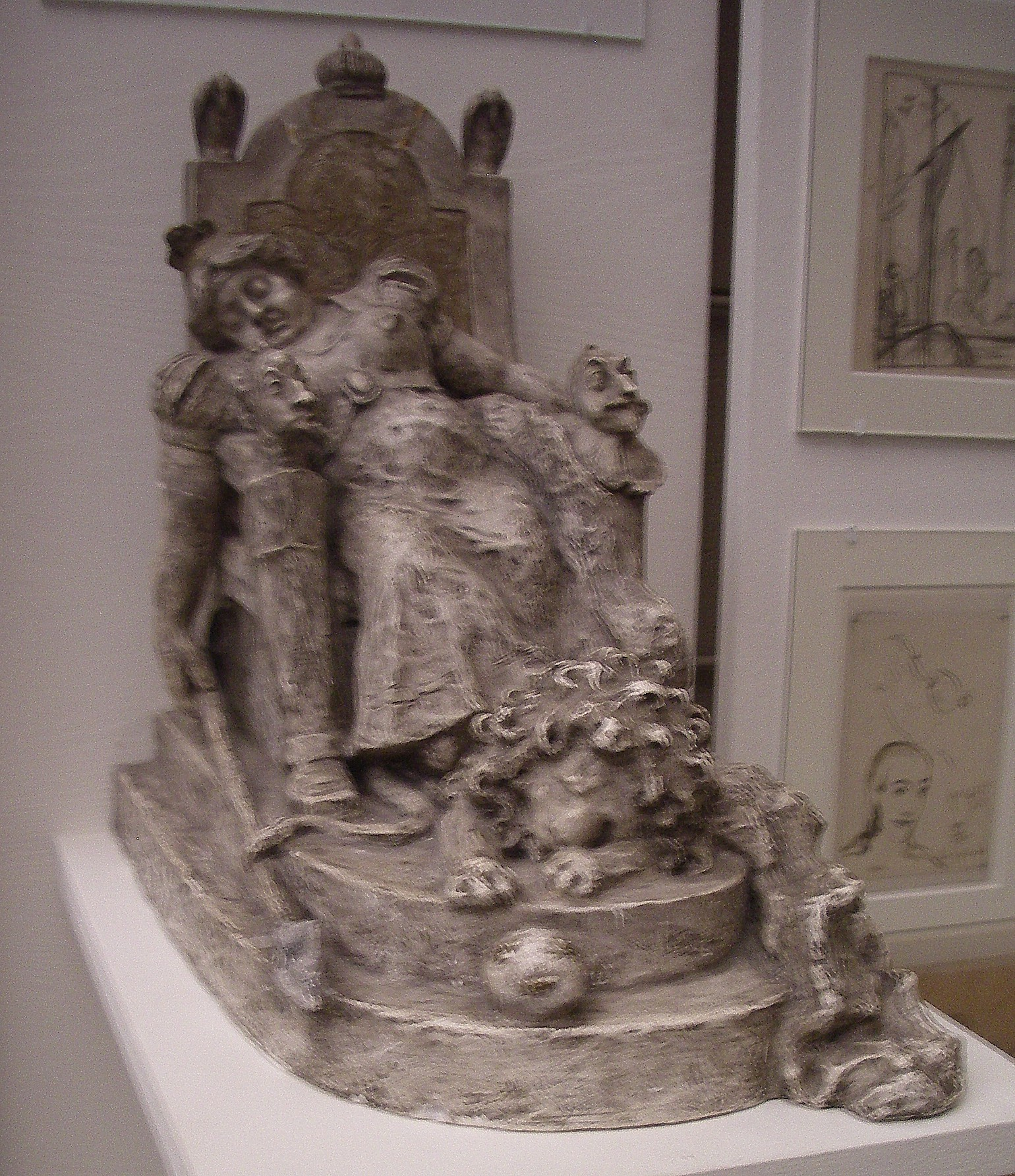 Sov i ro, Svens Bobergs satiriska förslag till nationalmonument 1910